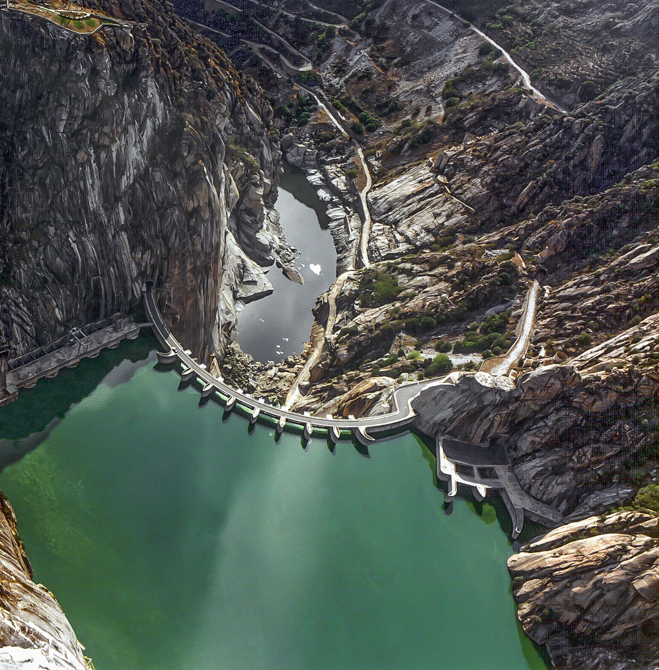 Iberdrola Aldeadávila dam, in the province of Salamanca